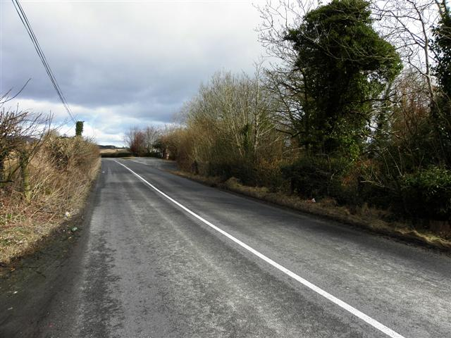 R247, Carn Low Heading north